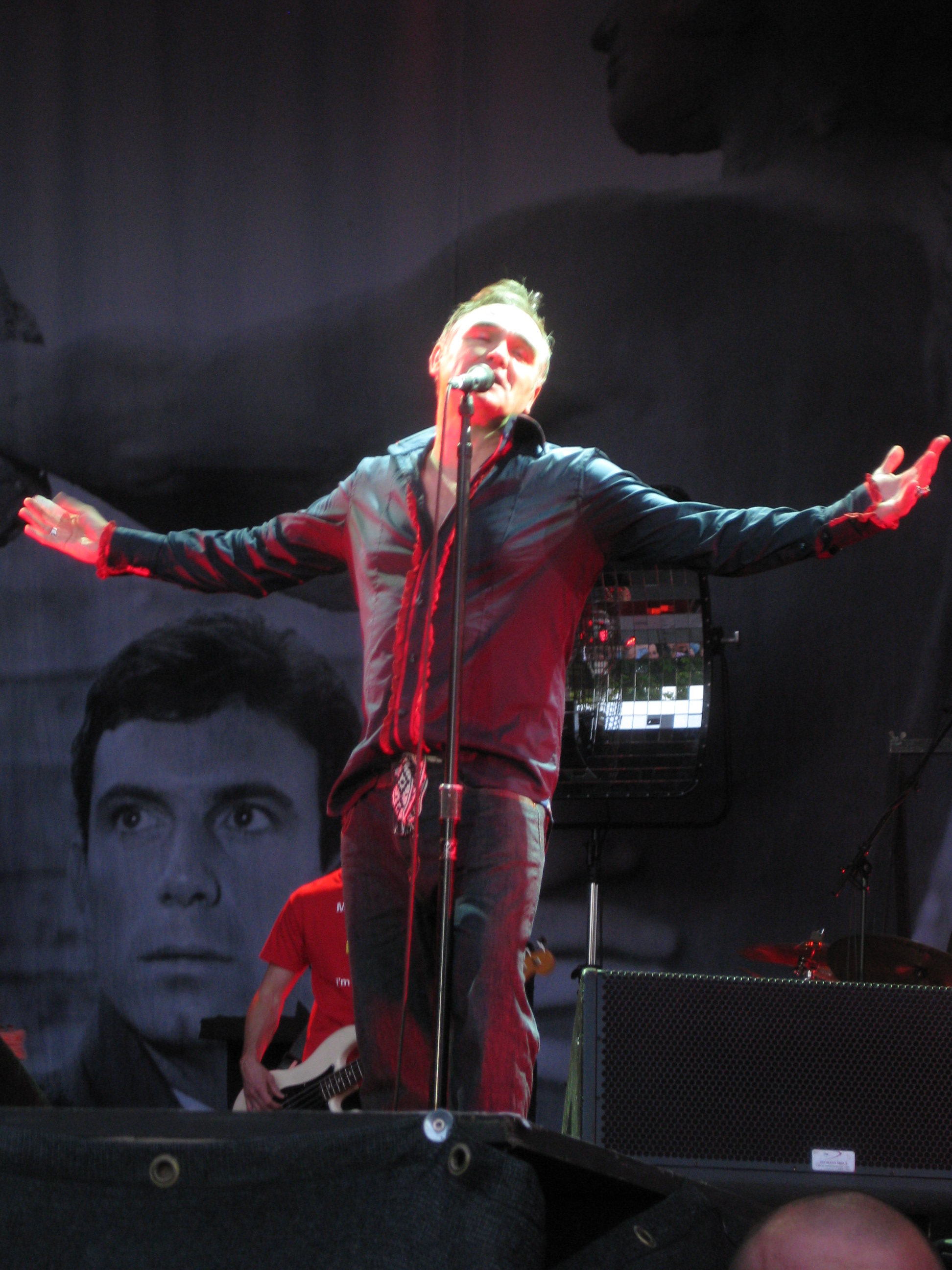 Zitadelle Spandau / Berlin / 18th July 2011